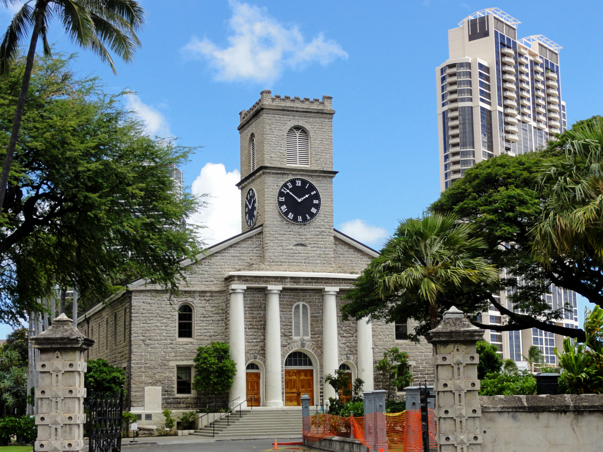 The Kawaiahaʻo Church — Downtown Honolulu, Oahu, Hawaii. Contributing property in the Hawaii Capital Historic District.